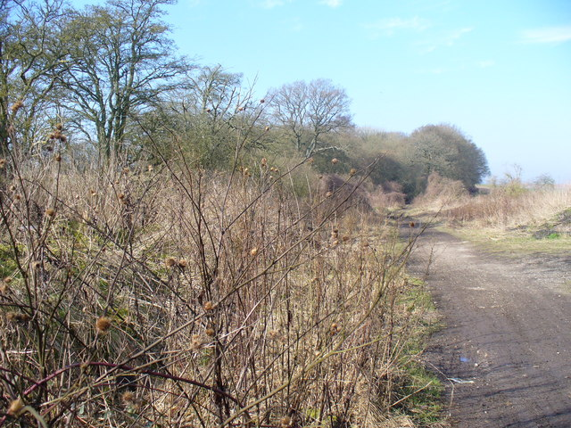 Harrow Way North-east of Overton, this wide track follows an alignment across southern England. The trackway is 6,000 years (or more) old and is Britain's oldest road.